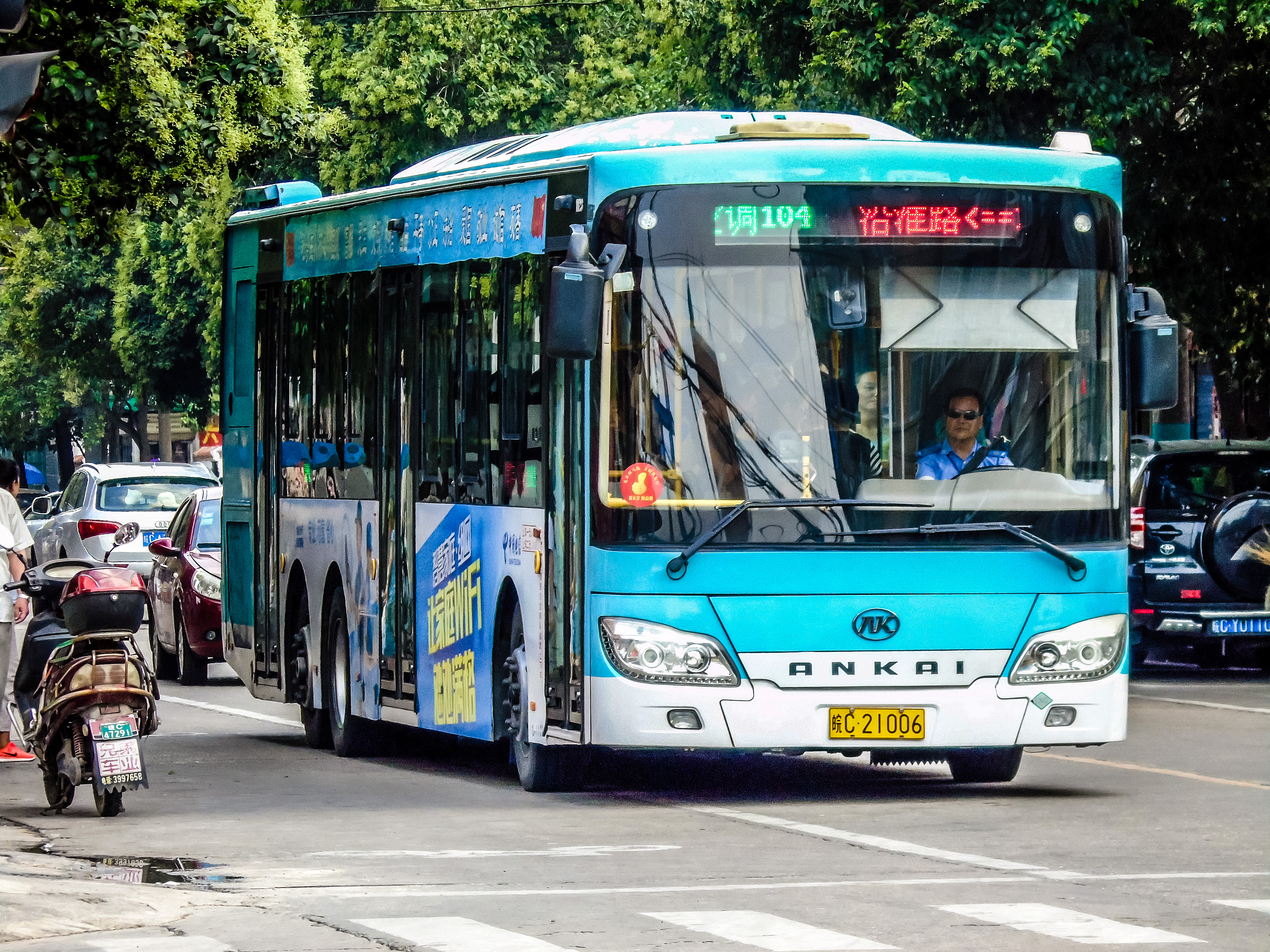 Bengbu Bus No.104